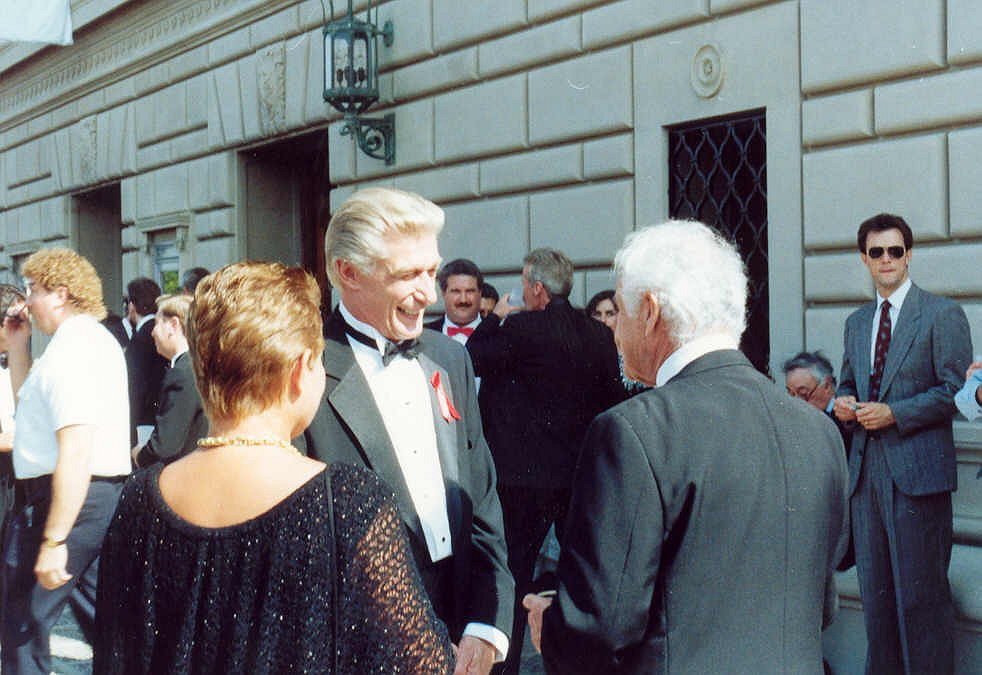 Photo taken at the 43rd Emmy Awards 8/25/91